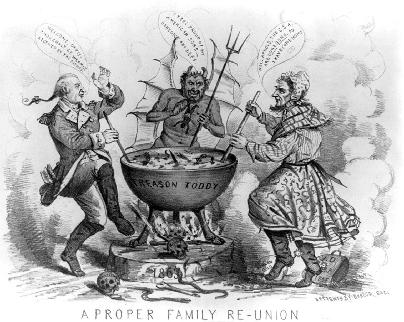 This is a political cartoon, captioned "A Proper Family Re-Union" at the bottom. It depicts Satan and Benedict Arnold welcoming Jefferson Davis to Hell. The three figures stand around a cauldron labeled "Treason Toddy". Satan is shown in the center, dropping a small human figure (a male slave in loin cloth) into the cauldron, saying "I feel proud of my American sons — Benedict and Jeff". Arnold is on the left, wearing his military uniform and stirring the cauldron, saying "Welcome, Davis! Thou shalt be warmly received by thy father". Davis is on the right (with "stolen gold" at his feet), dressed in women's clothing and riding boots (based on a story that near the end of the war he fled disguised as a woman). He is also stirring the cauldron, and says "Well, Arnold, the C.S.A. are done gone, so I have come home". Skulls labeled "Anderson[ville]" and "Libby" at bottom refer to infamous Confederate prisons.